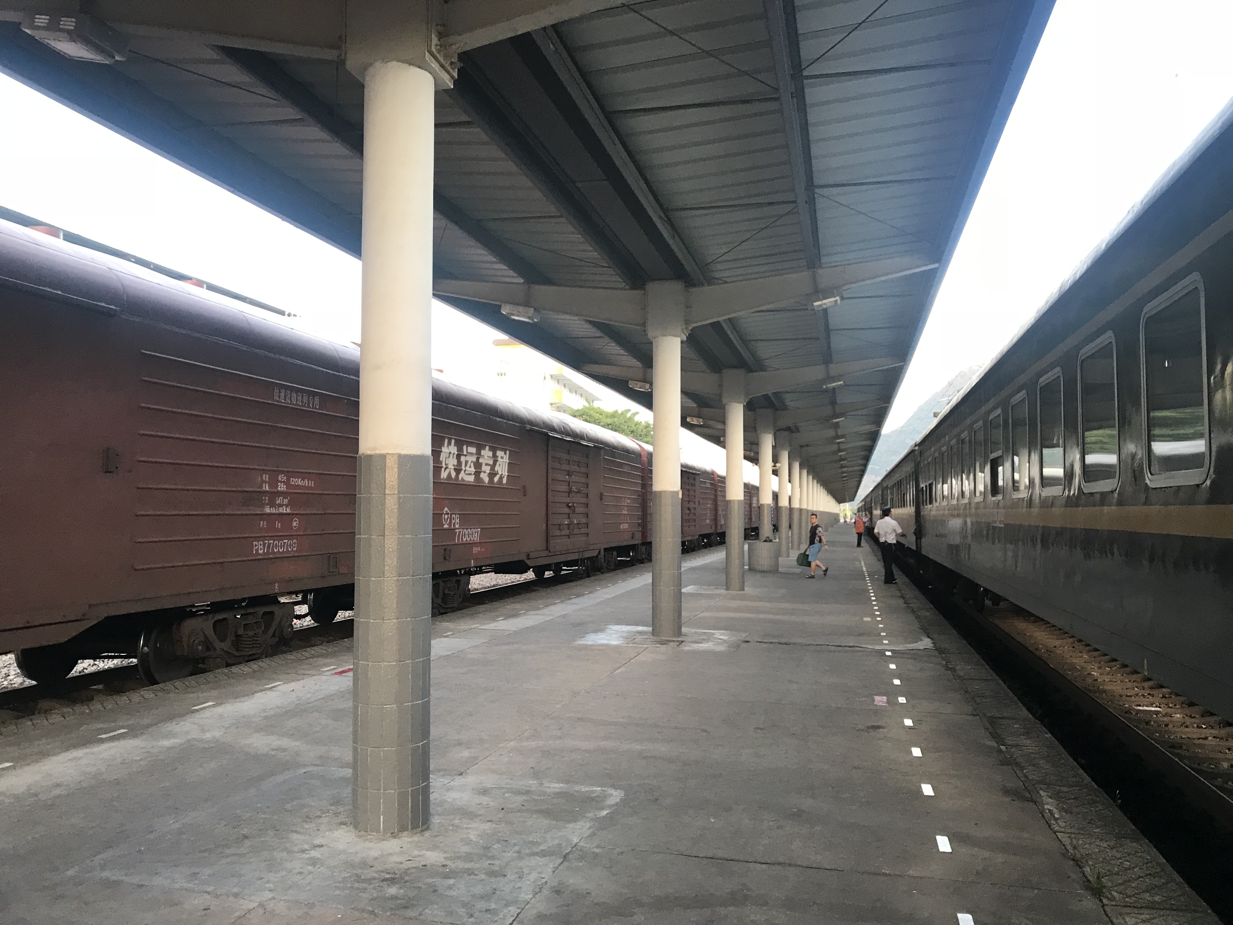 201806 Platform 3 of Nanpingnan Station